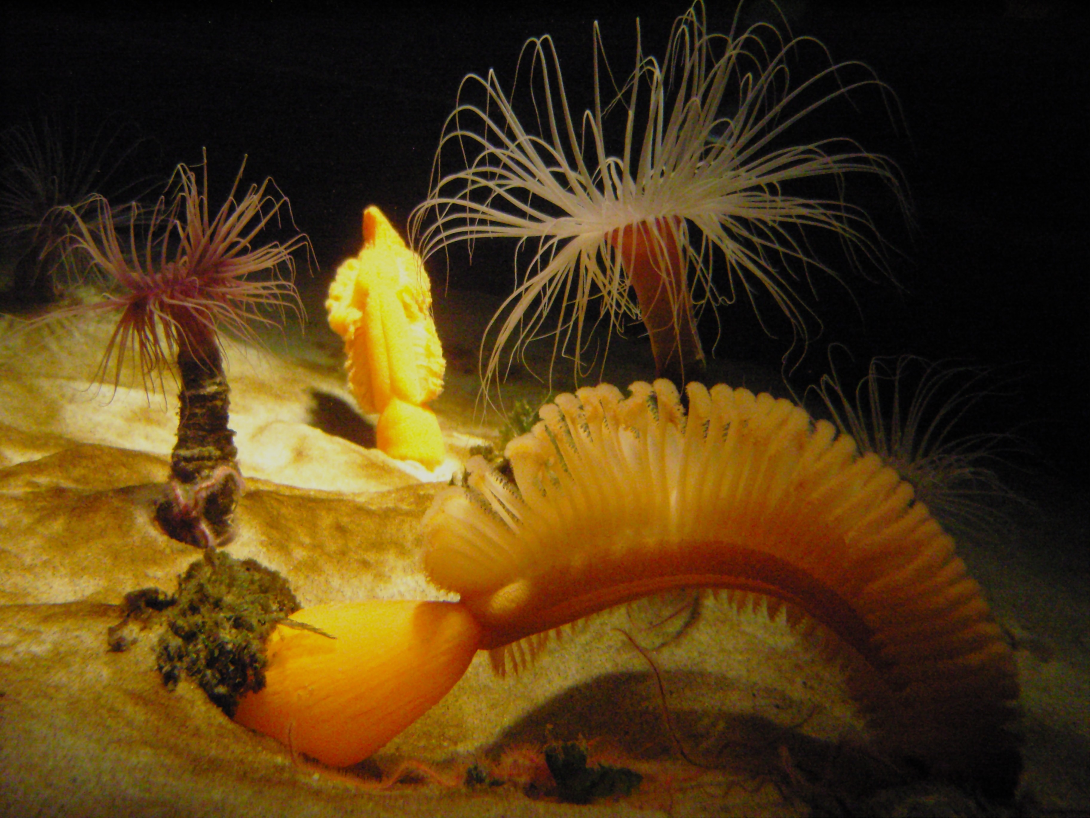 Orange sea pen (Ptilosarcus gurneyi) at Monterey Bay Aquarium, California.